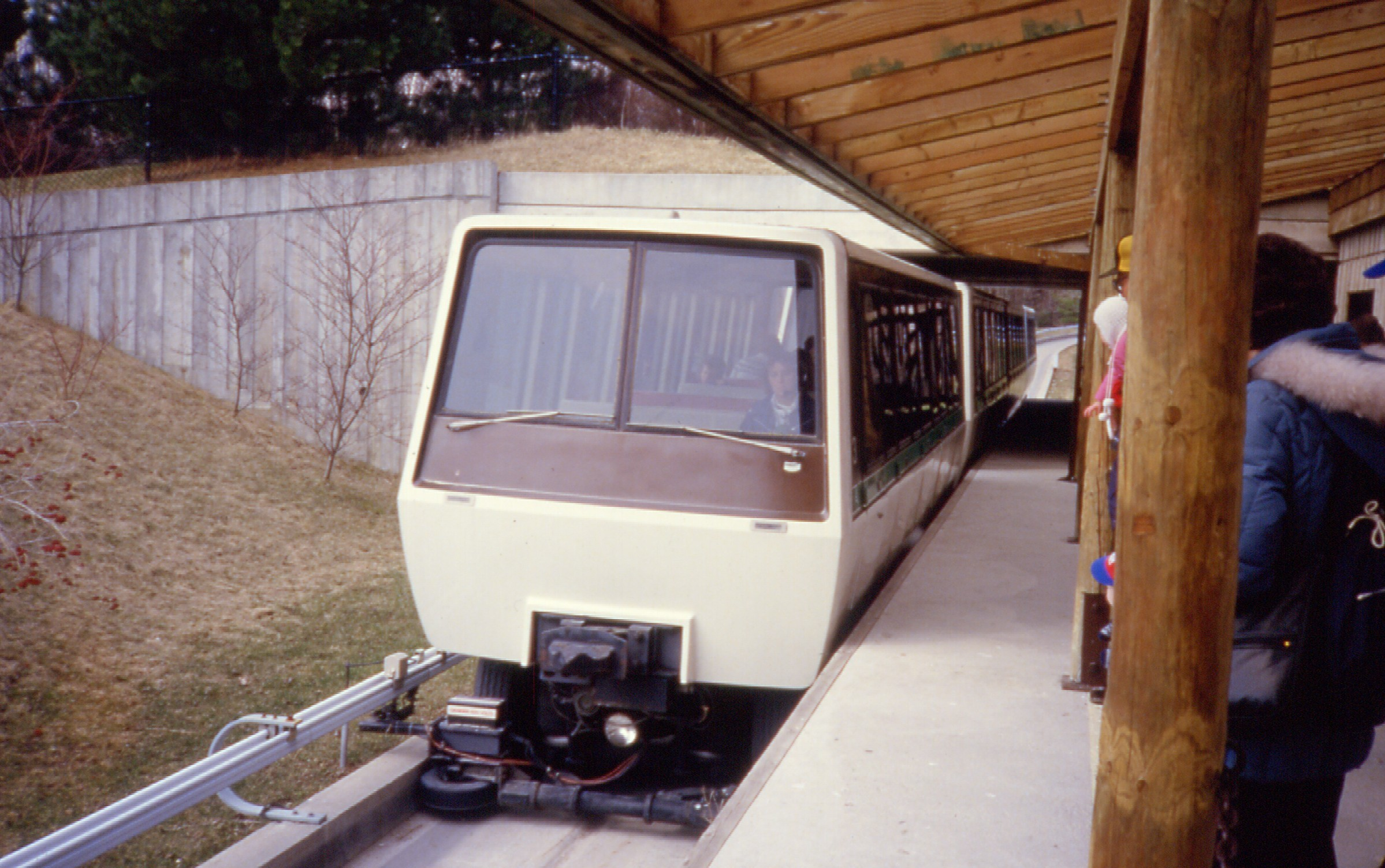 Needlessly dismantled zoo train system pulls into the main entrance station